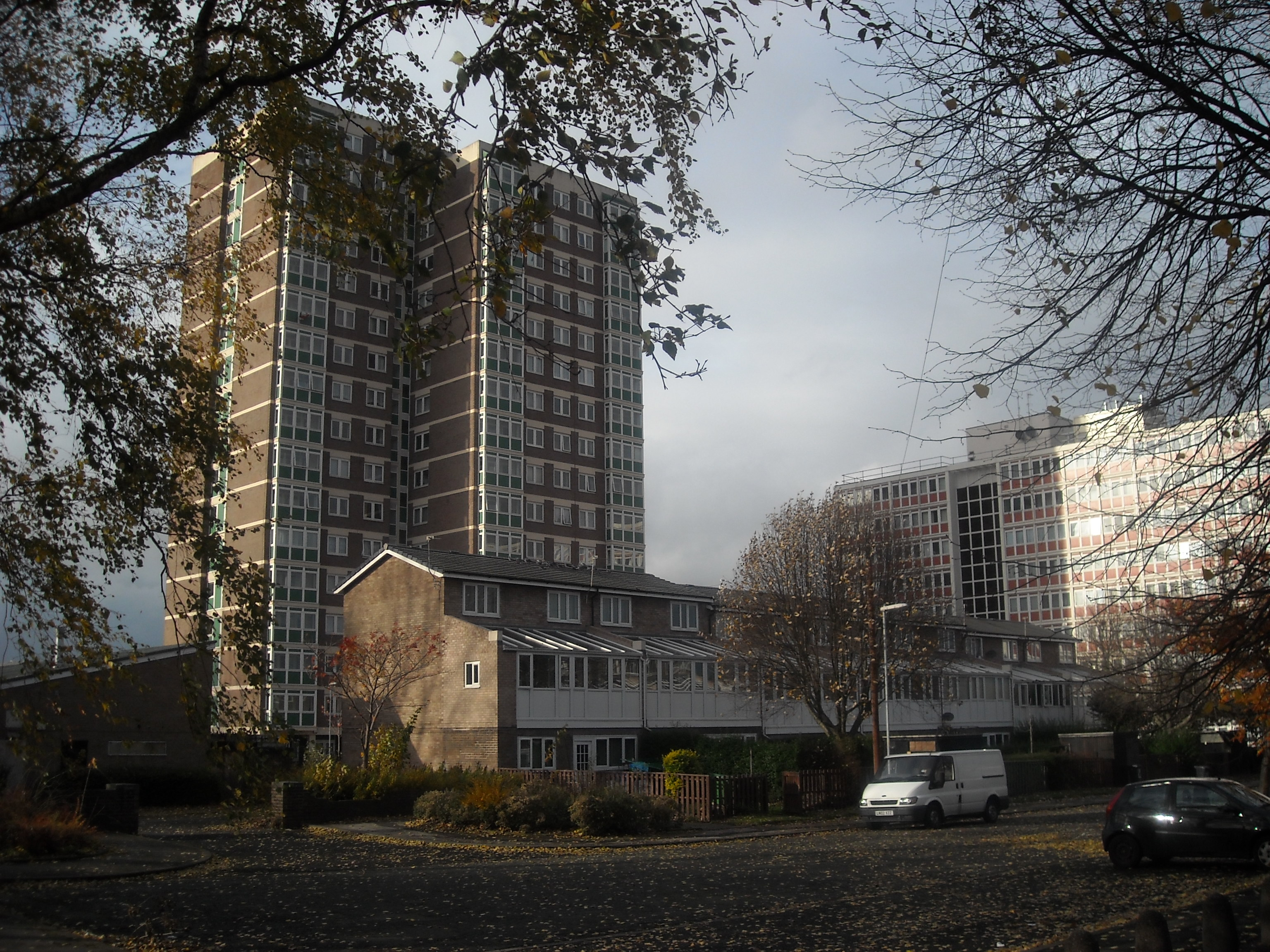 Yarwood Drive in Baguley, Manchester, England